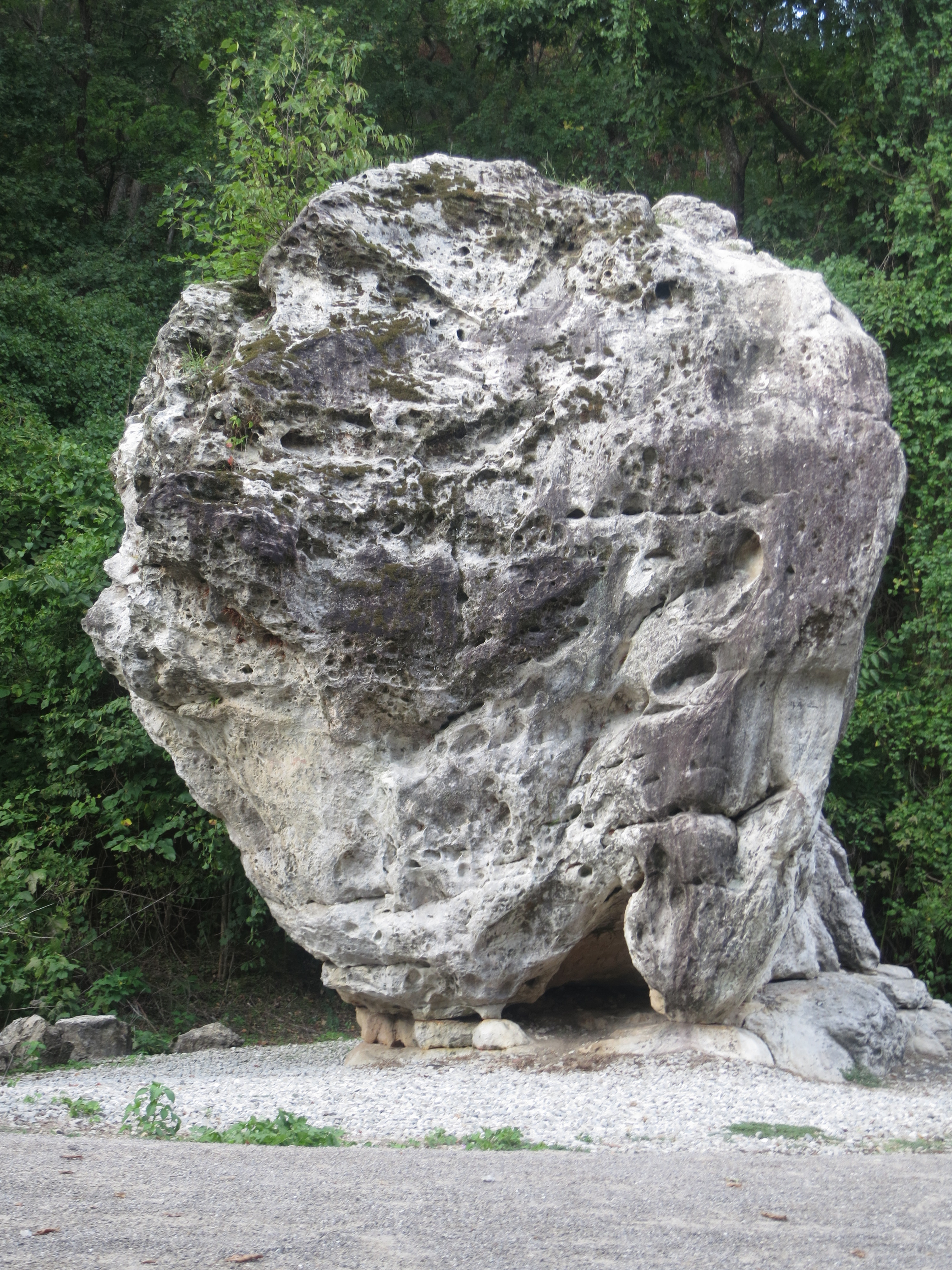 Standing Rock in Steedman on the Katy Trail.